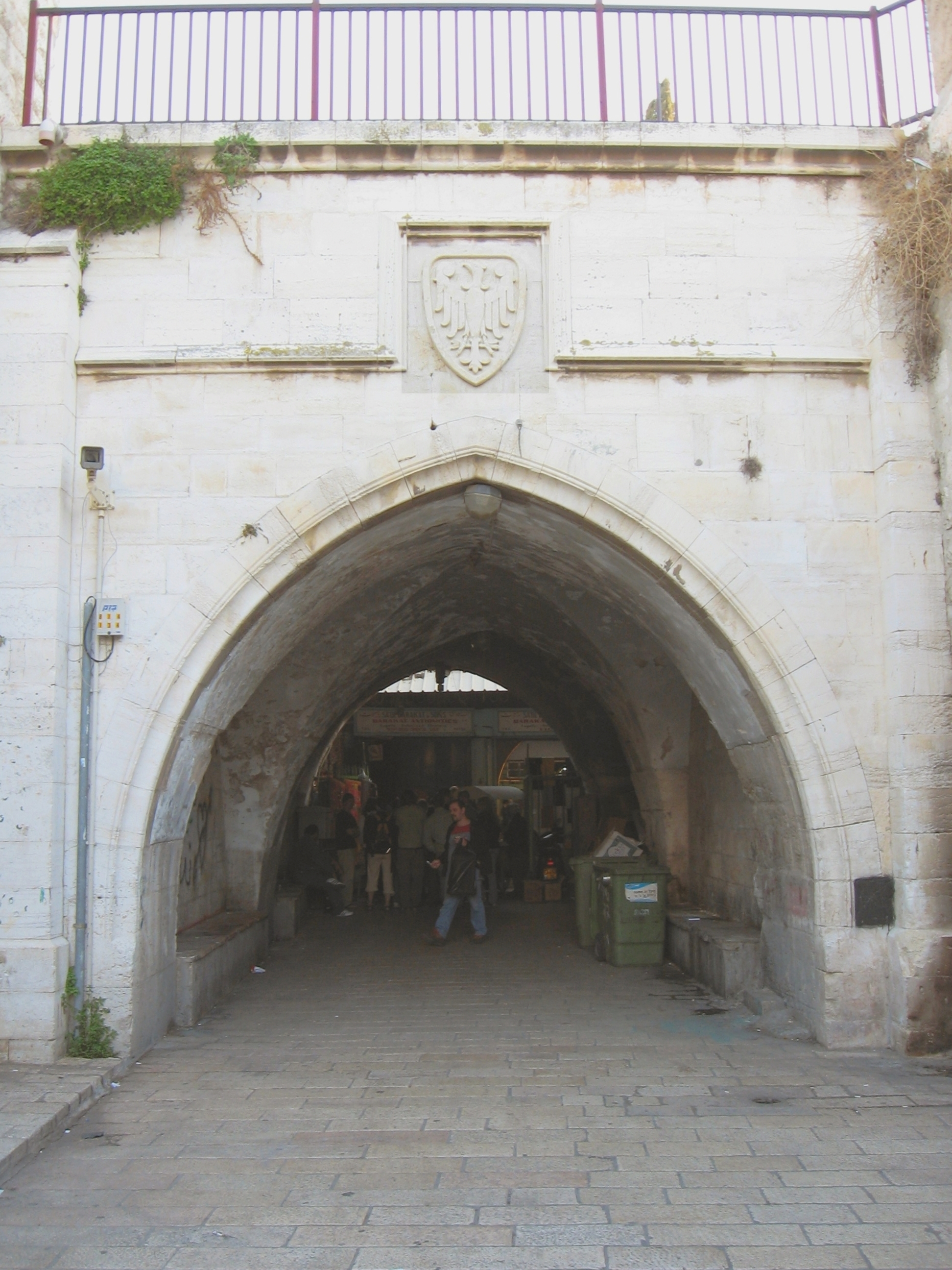 Old City of Jerusalem, Muristan gate at the south of Muristan street, carving of an eagle a symbol of the German Empire - caper shrub on the wall.